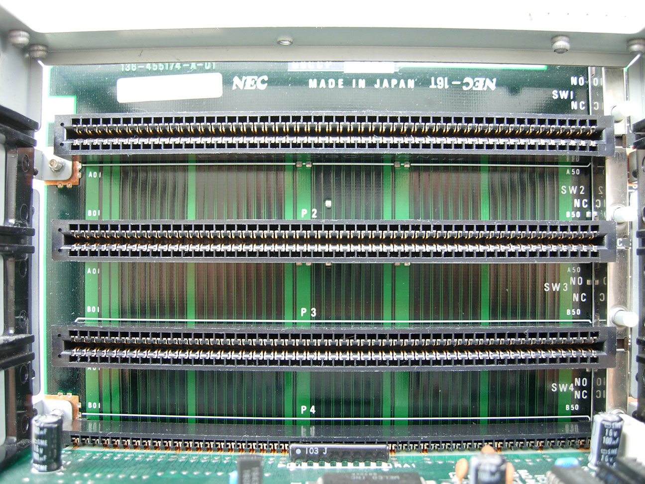 NEC PC-9801DX expansion slot often called "C-Bus" by users. See Cバス.